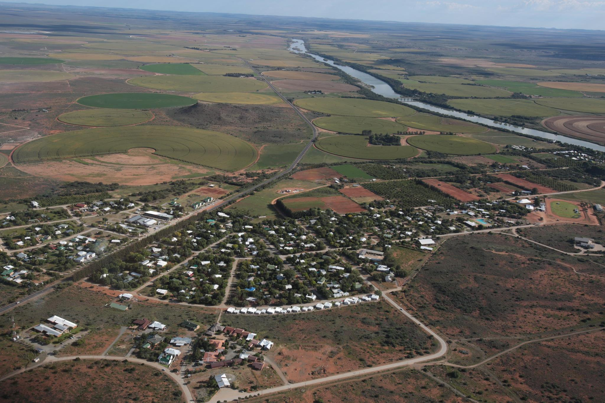 Aerial view of Orania